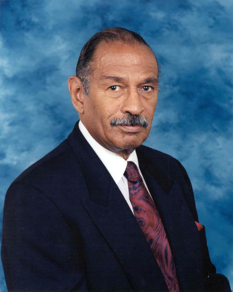 John Conyers, member of the United States House of Representatives.